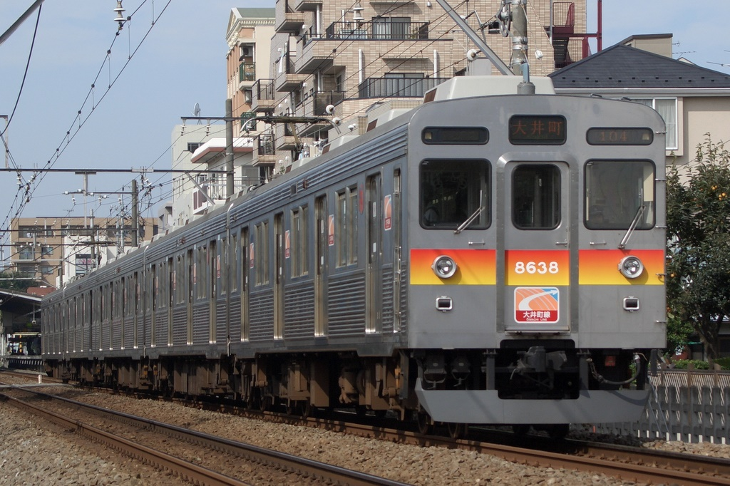 the Tokyu 8500 series train running between Oyamadai Station and Kuhombutsu Station on the Tōkyū Ōimachi Line